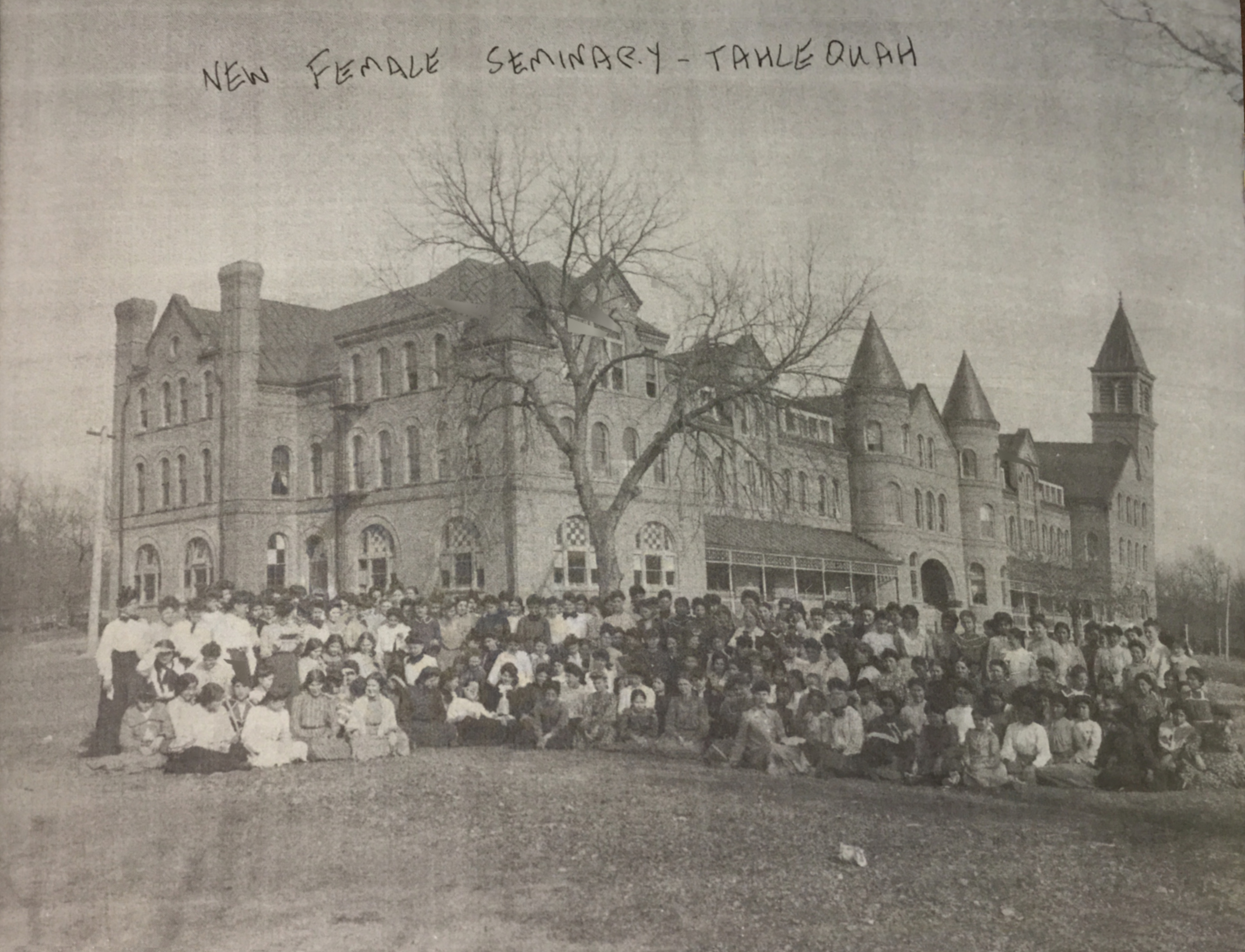 derived from Cherokee Female Seminary (new), Tahlequah, Oklahoma - Cherokee Heritage Center (2015-05-27 14.01.28 by Wesley Fryer).jpg